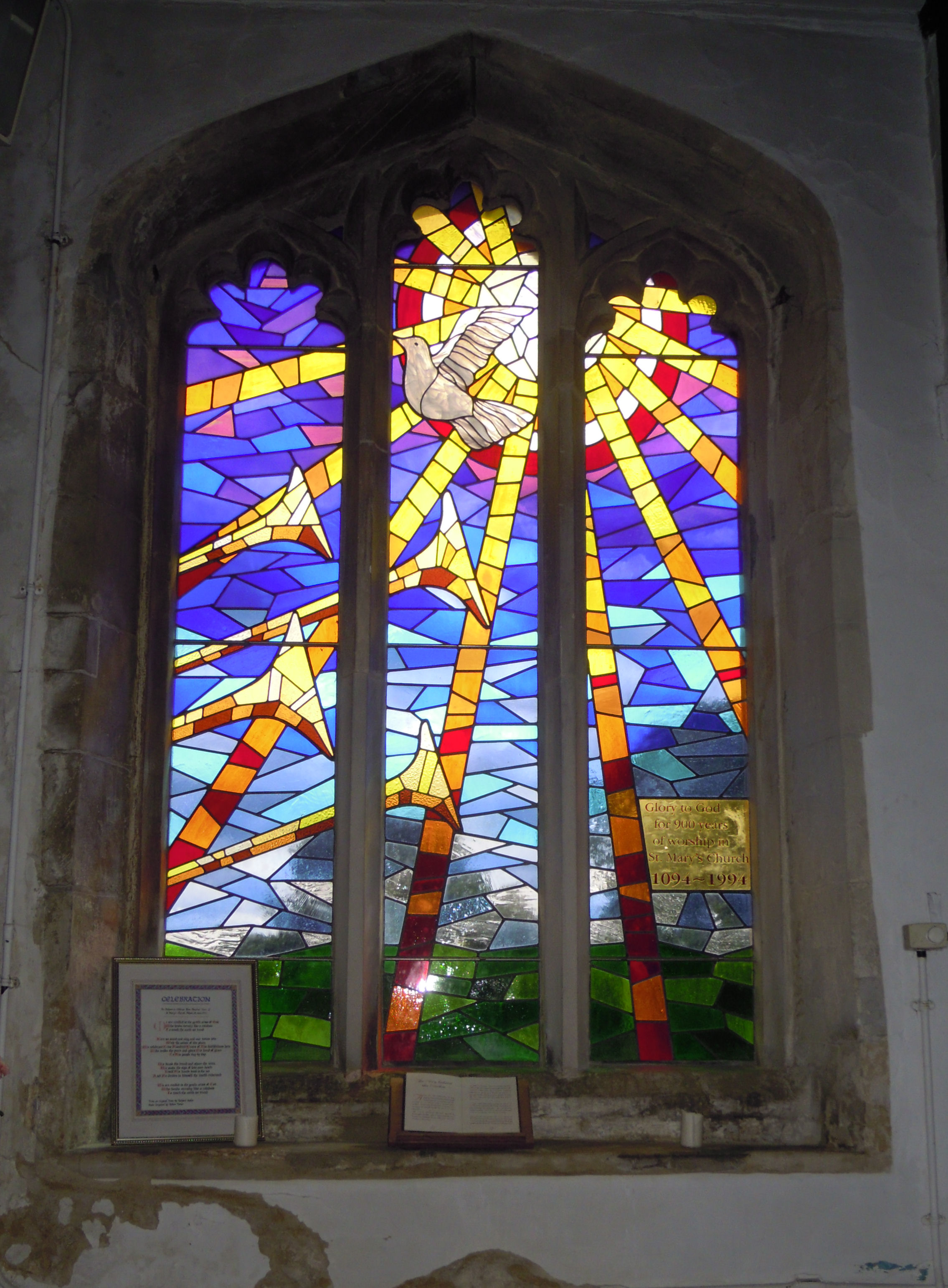 The Russell window in the Church of St Mary the Virgin in Potton in Bedfordshire